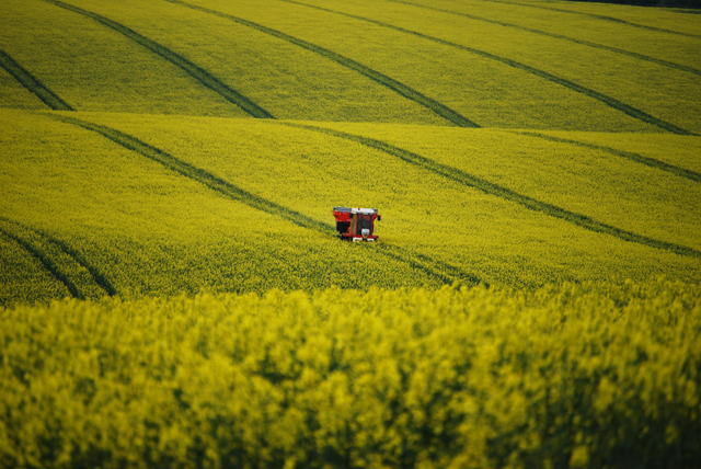 A Bateman drive unit fitted with a fertiliser spreader, oilseed rape near Barton Grange, Barton-Upon-Humber, North Lincolnshire, Great Britain.